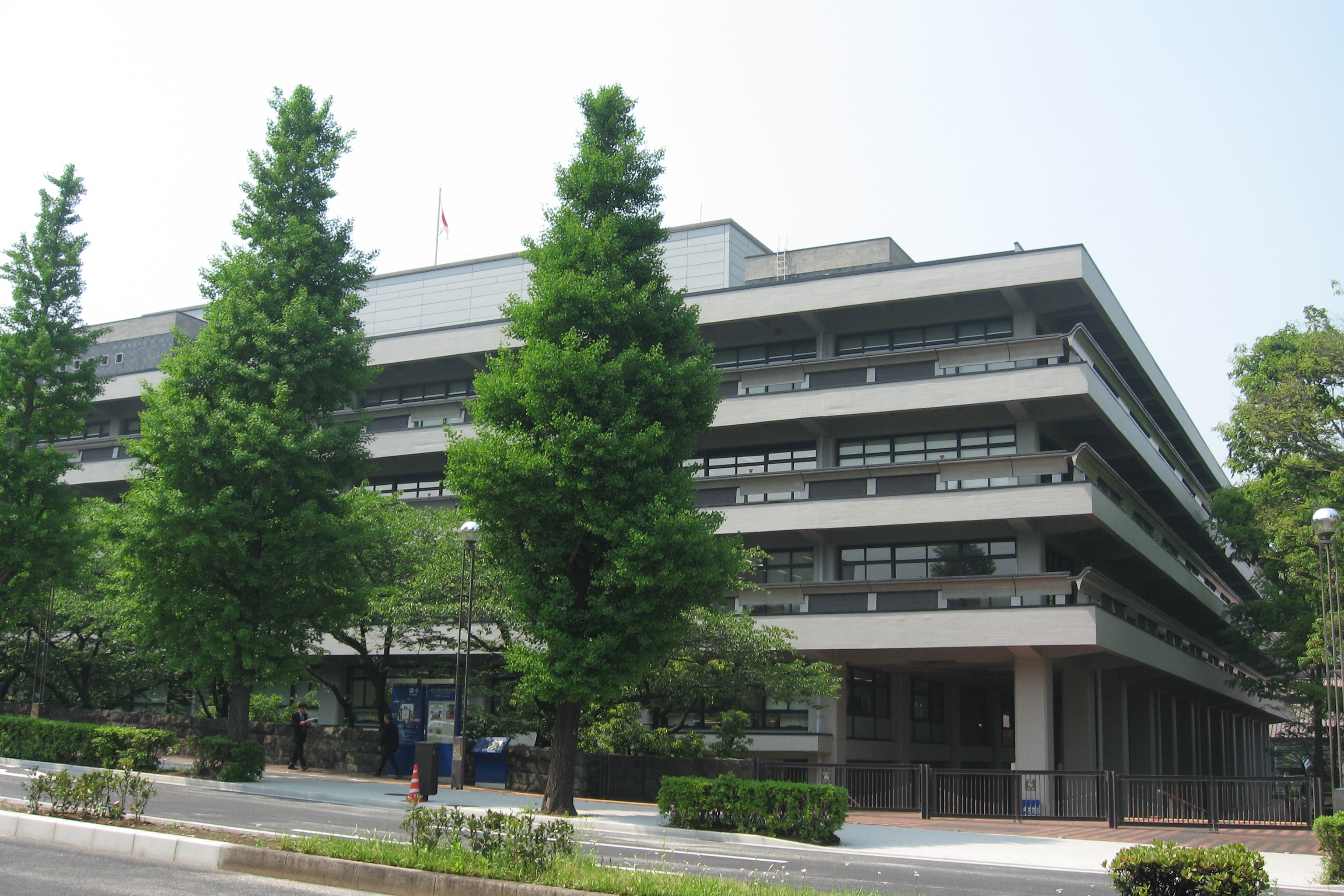 Tokyo Main Library of the National Diet Library, Main building. 1-10-1 Nagatachô, Chiyoda, Tokyo.